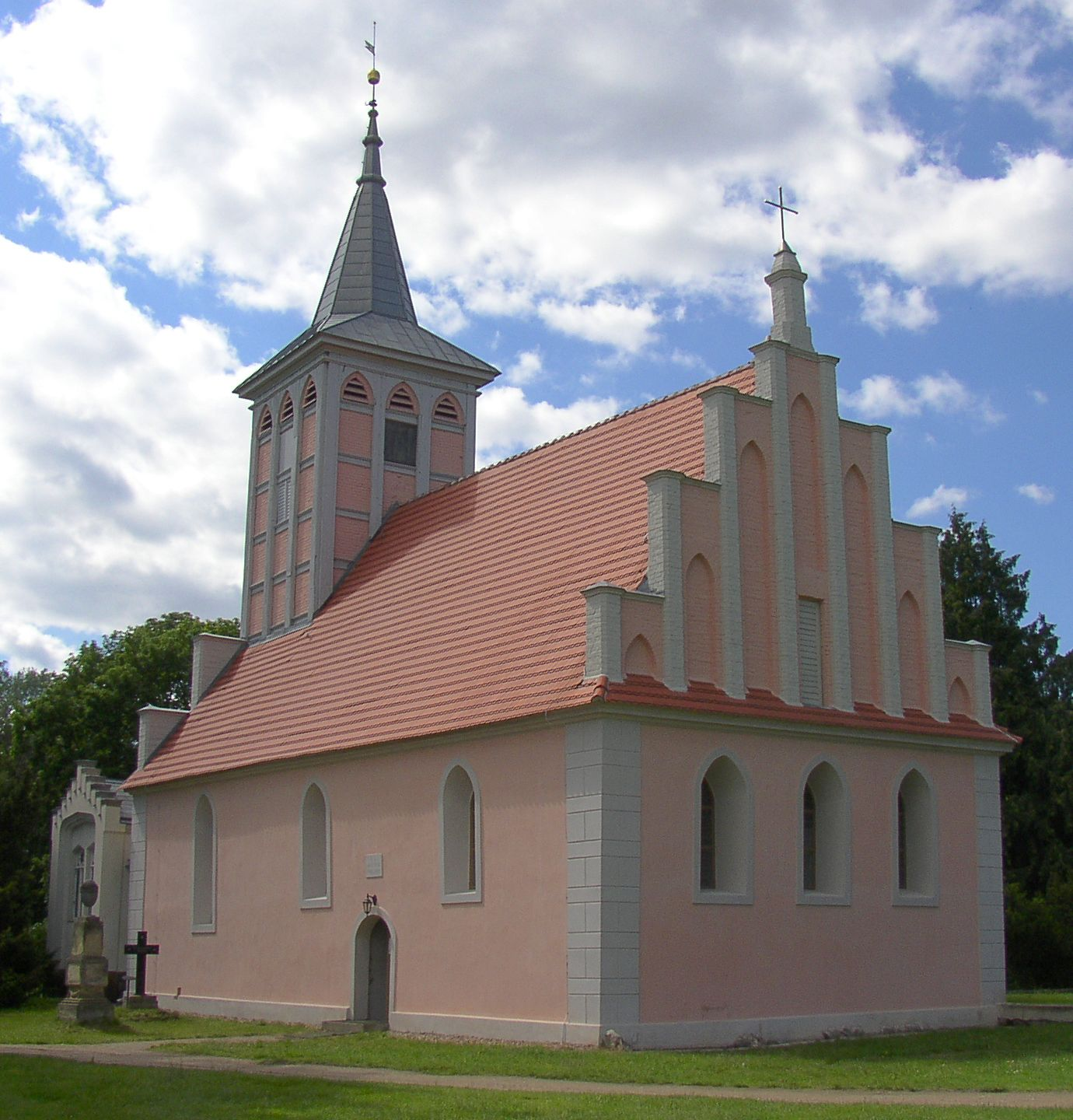 Church in Schwedt-Criewen in Brandenburg, Germany